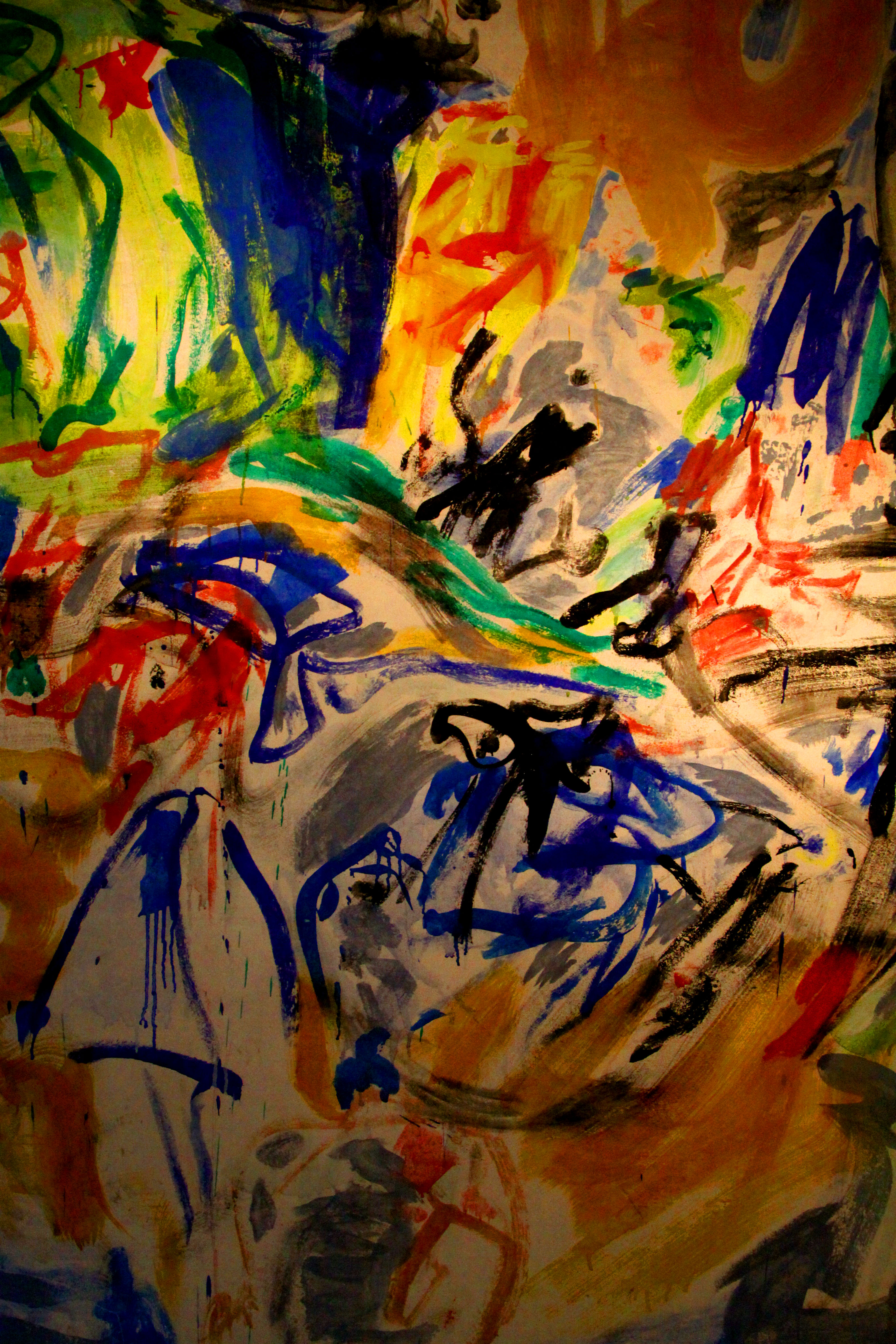 Ishøj. På Arken Museum for Moderne Kunst.